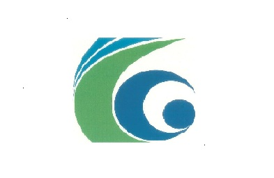 Flag of Kihoku Mie